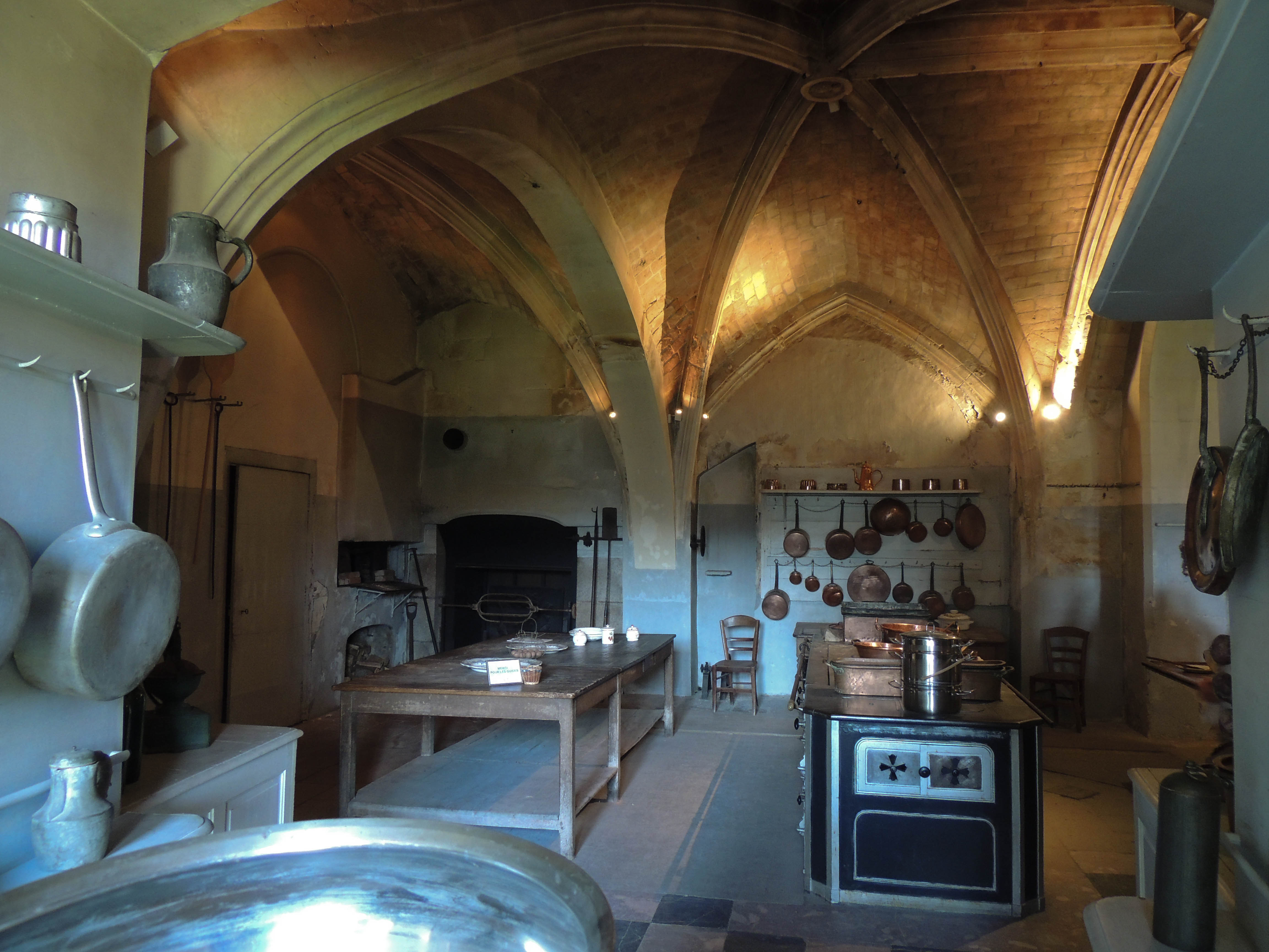 Les Cuisines du château du Lude